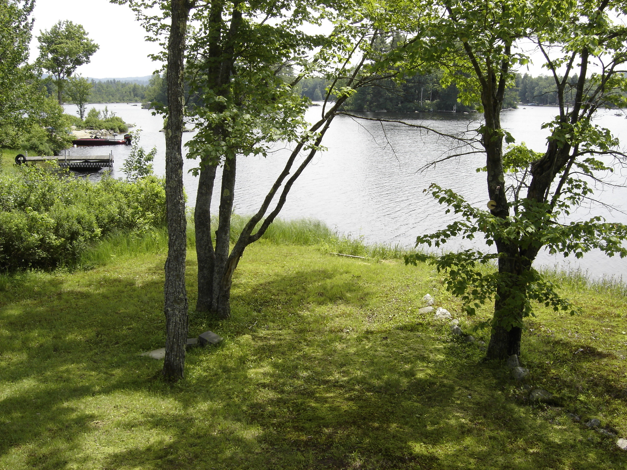 Photo taken by me.